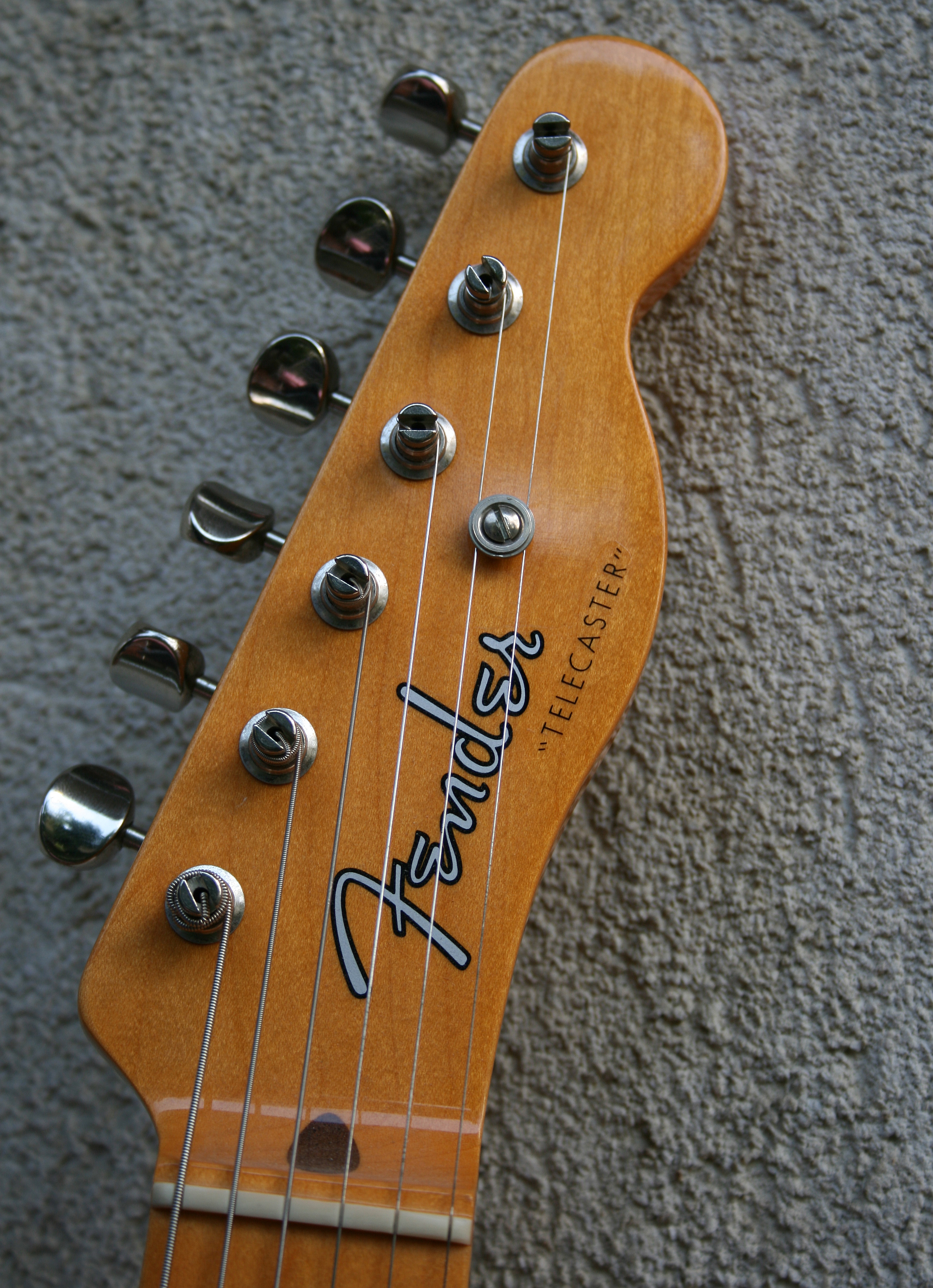 Fender Telecaster American Vintage 52 RI headstock